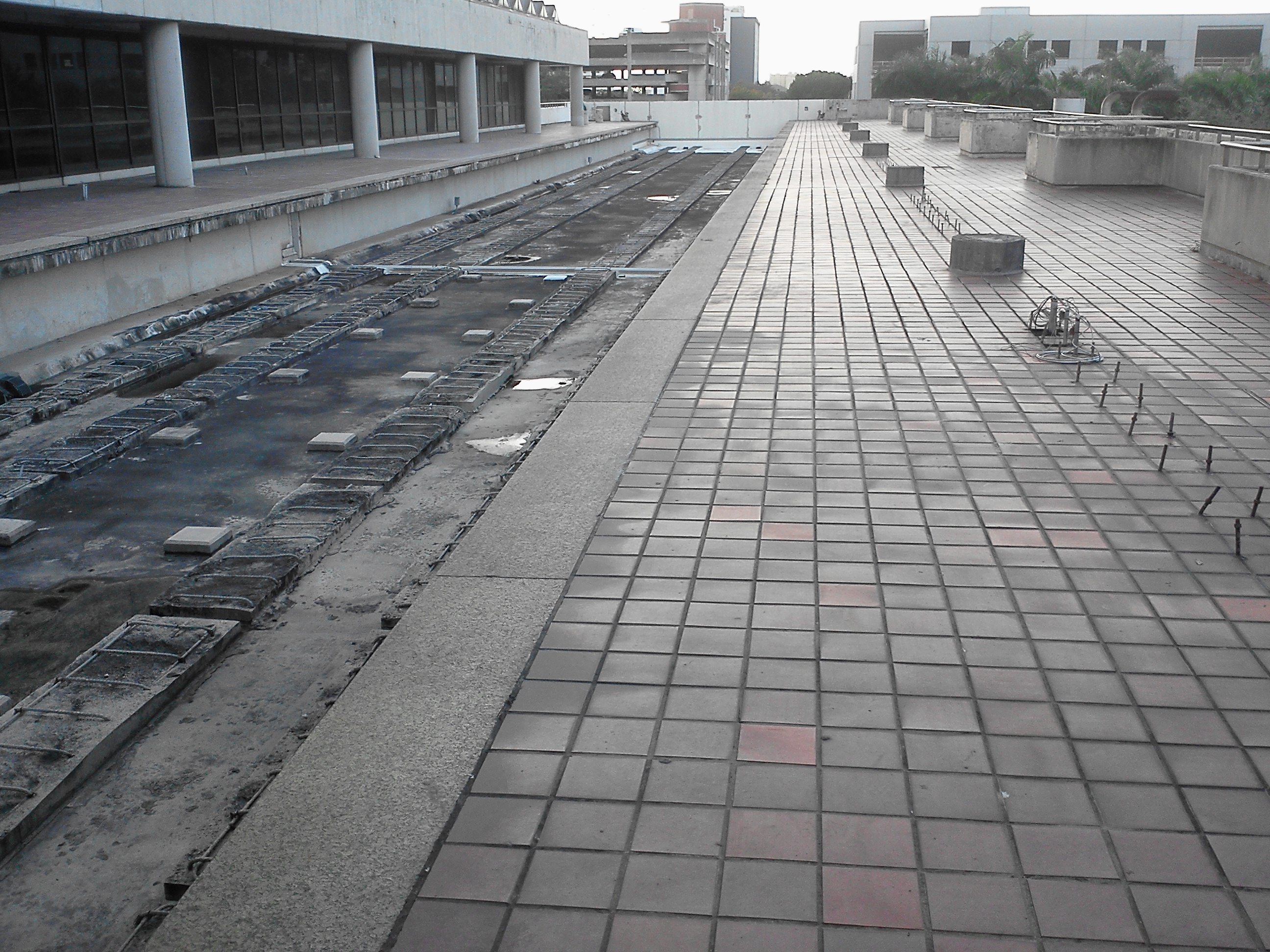 The ghost platform of the planned east-west Metrorail (Miami) line at Government Center station